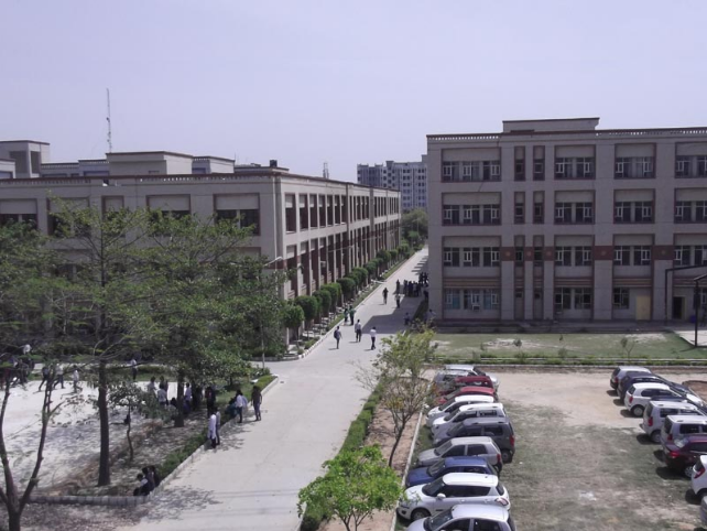 Campus of the Greater noida institute of technology